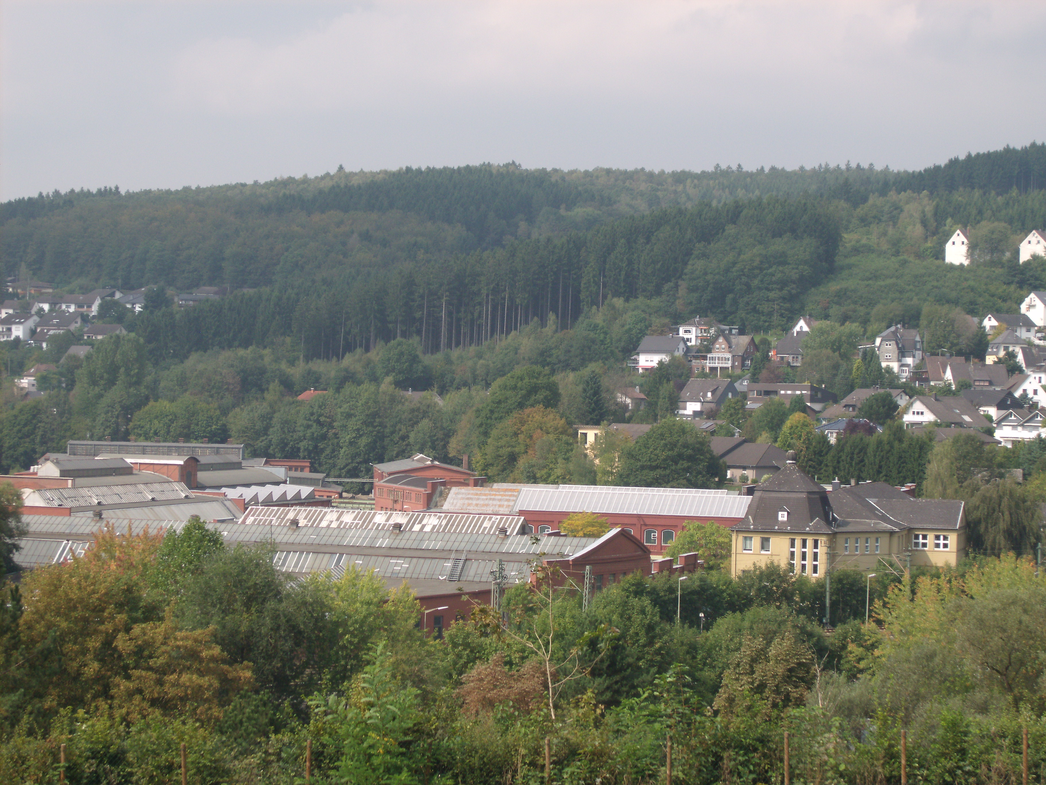 Bahnstraße, Kirchen (Sieg): Overview of some of the factory halls of the former Arnold Jung Lokomotivfabrik, late 19. and early 20. century.